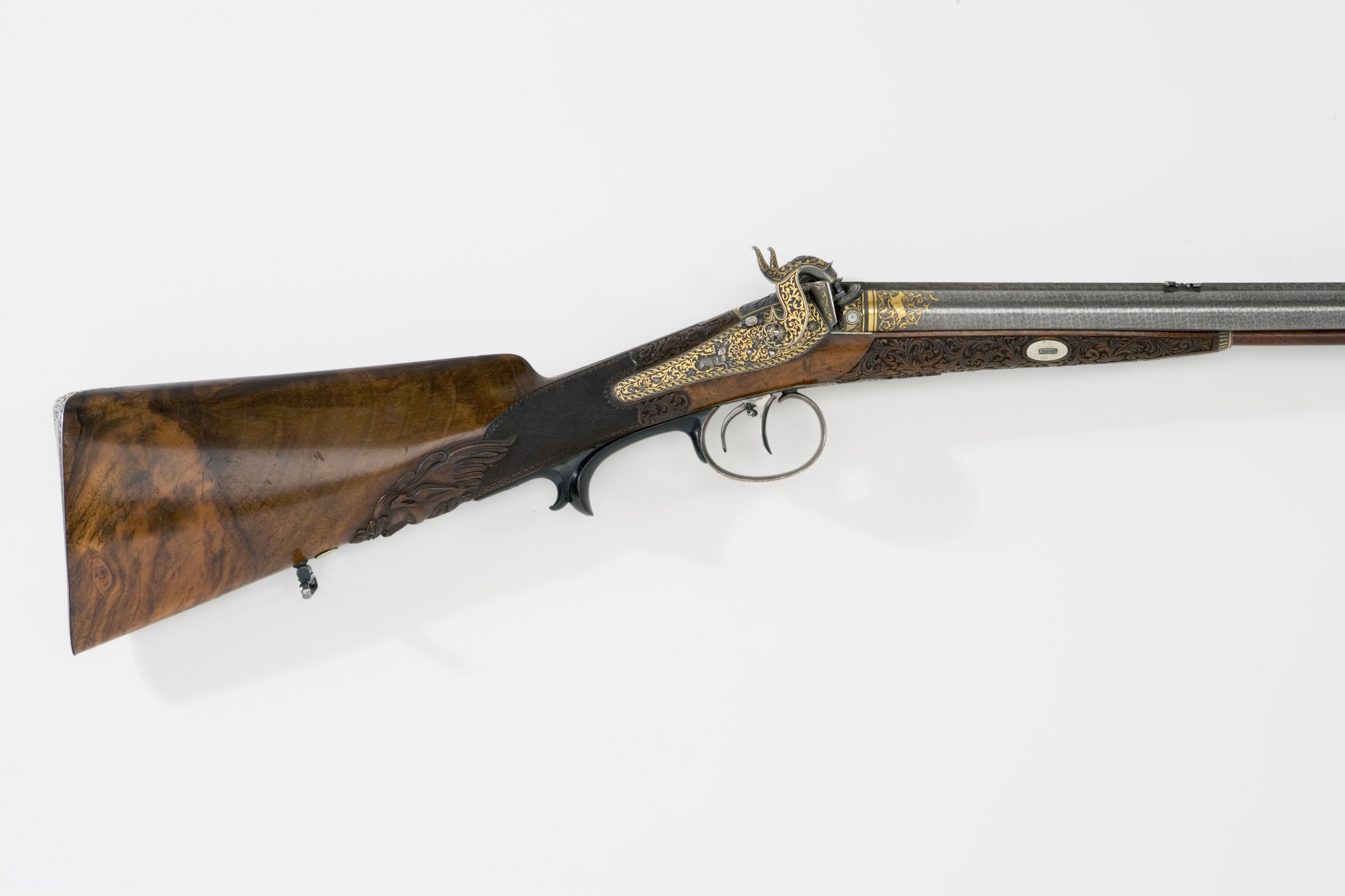 Note: For documentary purposes the original description has been retained. Factual corrections and alternative descriptions are encouraged separately from the original description.detalj slaglåsdubbelstudsare - LRK 3835 Nyckelord: Studsare, Detalj, Jakt, Vapen, Föremålsbild